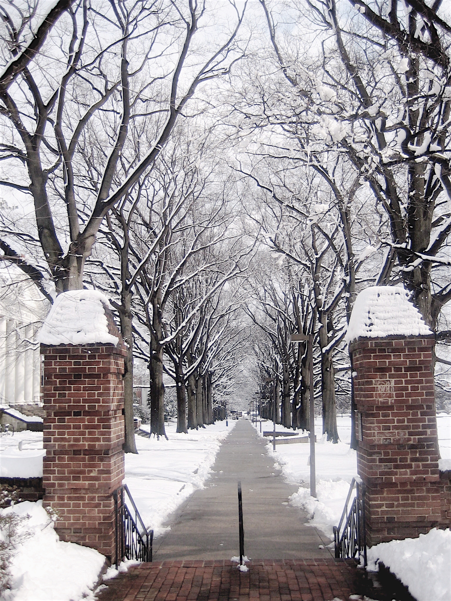 Path on the left hand side of McKeldin Mall at the University of Maryland, College Park in winter.